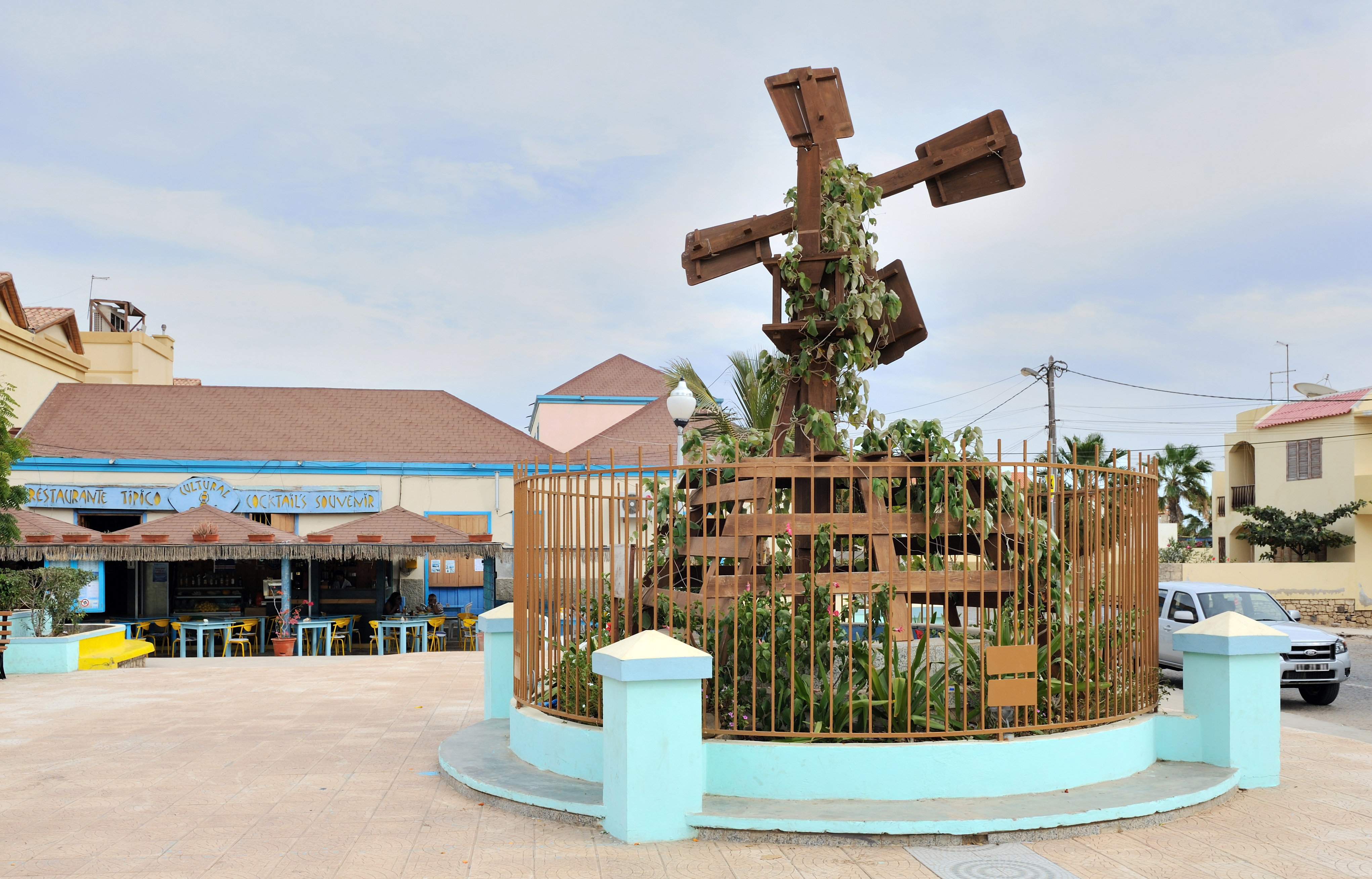 Cape Verde, island of Sal: square Marcelo Leitão in Santa Maria, with an ancient windmill.